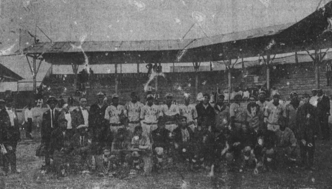 The players from both the Dallas Giants and the Memphis Red Sox. TOP ROW STANDING: Reading from left to right: J. A. Austin, sporting Editor Dallas Express; R. S. Lewis, president of Memphis Red Sox; L. P. Sharp, secretary; Attorney J. T. Suttles, Clubs' Legal Adviser; Big John, pitcher; Gee, catcher; “Steel Arm" Davis, outfielder; Dewitt Owen, infielder; Miller, pitcher; Lowery Jones, infielder; R Jones, outfielder; F. Williams, catcher; Bill, pitcher; Froncell Manley, Umpire. BOTTOM ROW: Reading from left to right: Umpire Green Walls; Billings, pitcher; Russell, infielder; Charleston, catcher; Norman, outfielder; C. Glass, pitcher; D. Glass, outfielder; Stearns, outfielder; Cooper, pitcher; Cunningham, infielder; Griffin, infielder; Lowe, infielder and captain. Several players of Memphis were out when the photograph was taken.